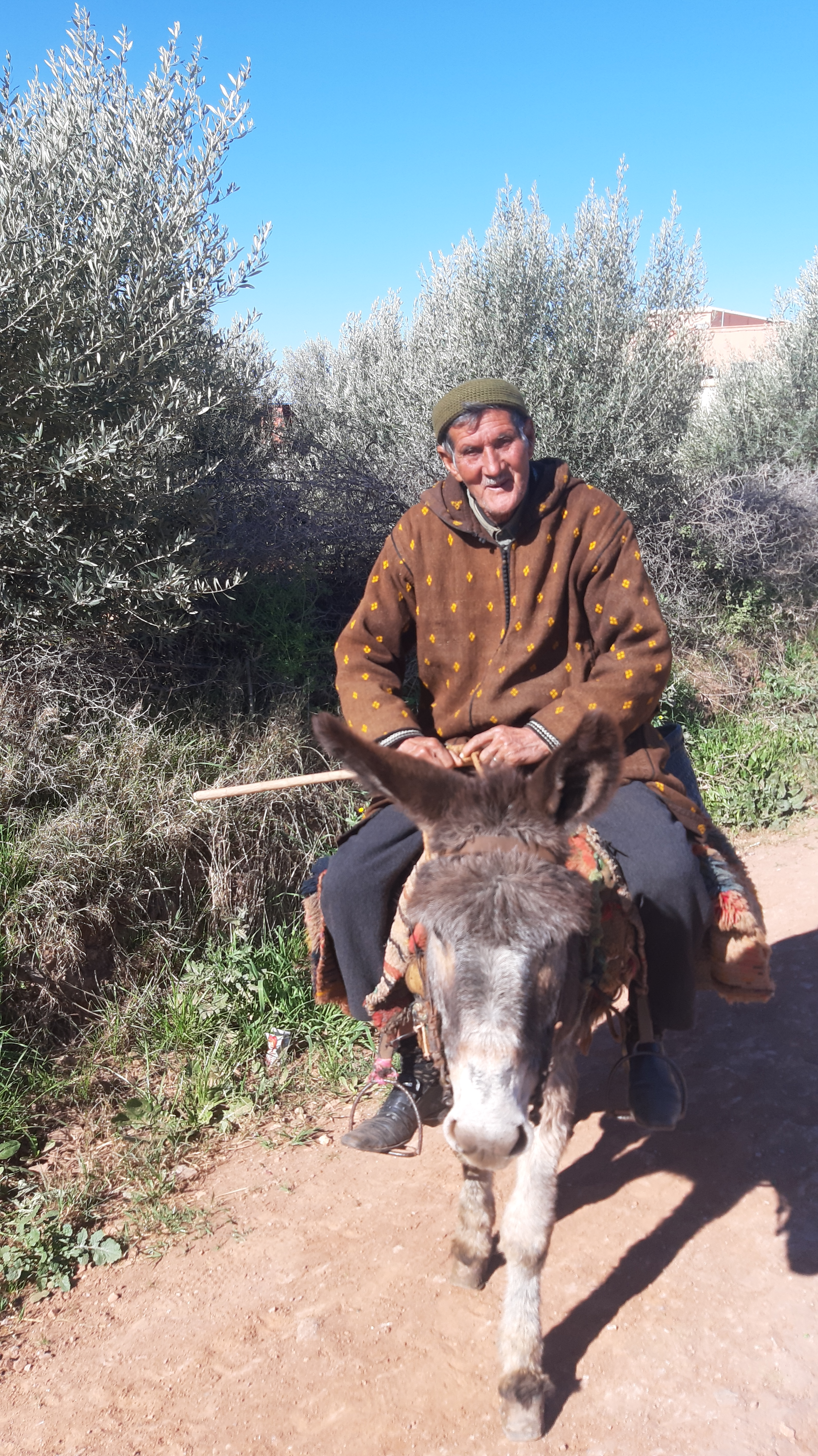 This is an image with the theme "Africa on the Move or Transport" from: Morocco